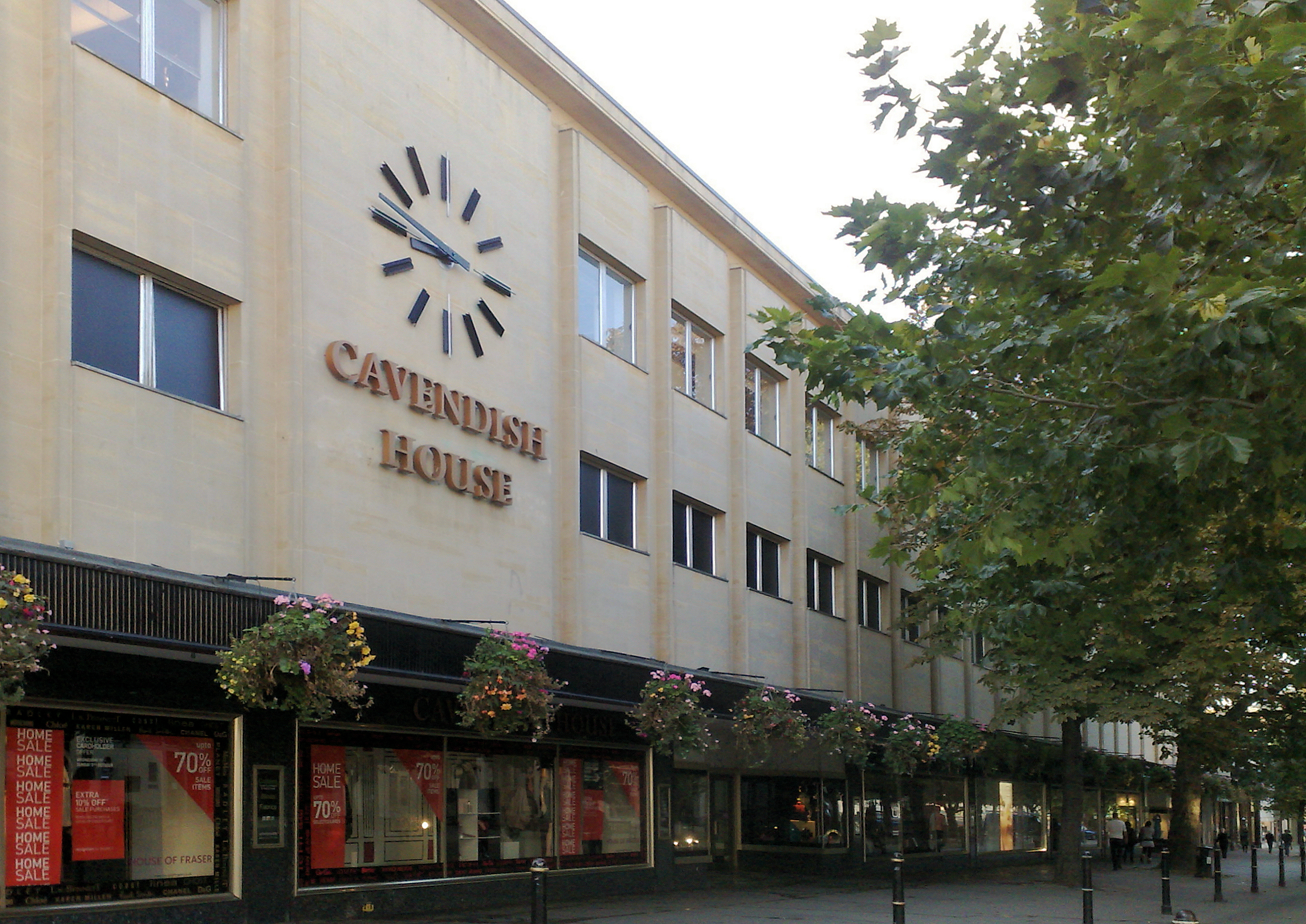 October 2008 photo of Cavendish House department store in Cheltenham, main Promenade entrance, side-angled shot showing most of the 287-foot frontage and clock as per 1931 refurbishment onwards. Also shows flower baskets and bollards on pedestrian area of the Promenade.